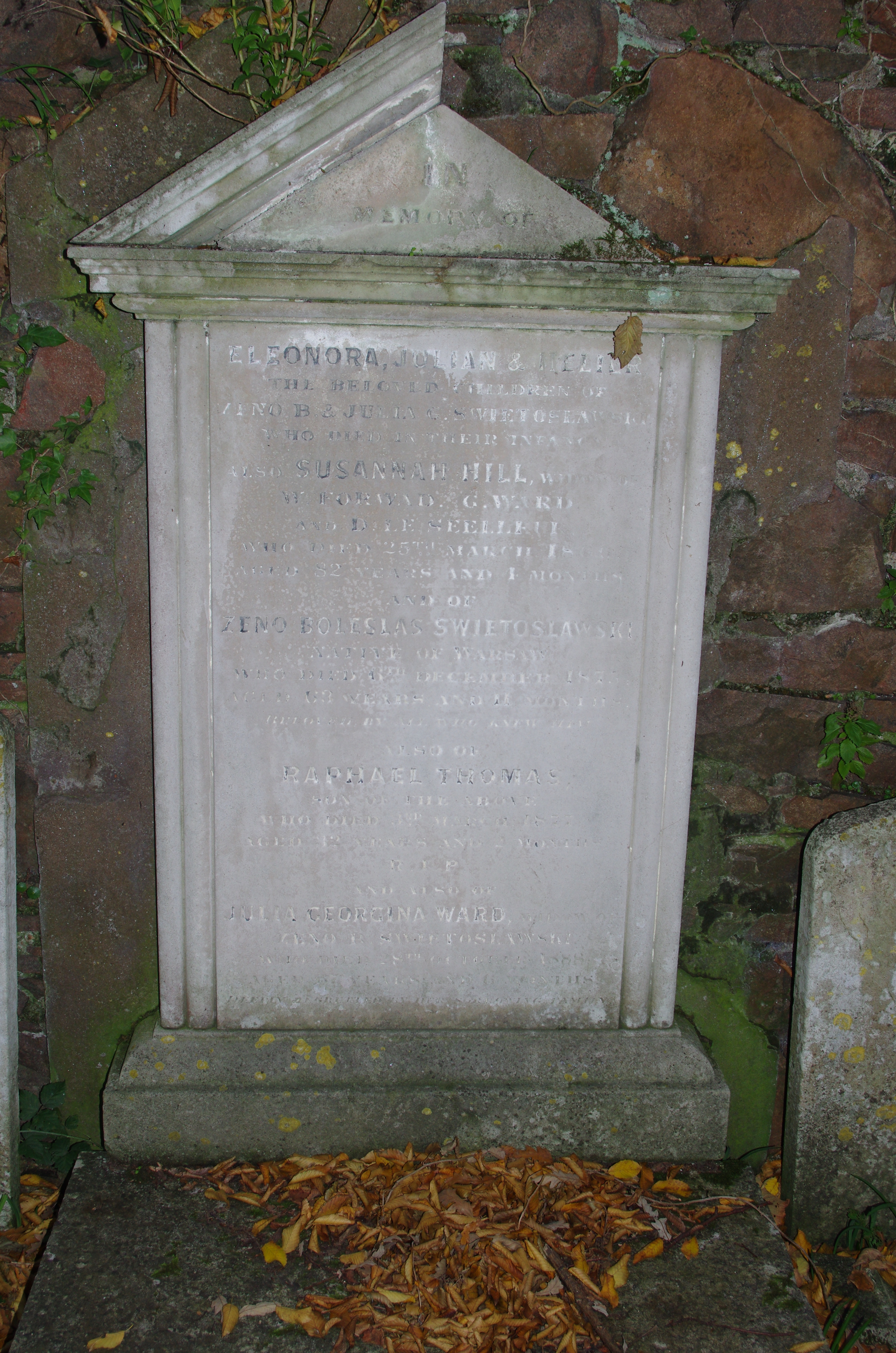 Grave of Zenon Swietoslawski, Green Street cemetery, St Helier, Jersey